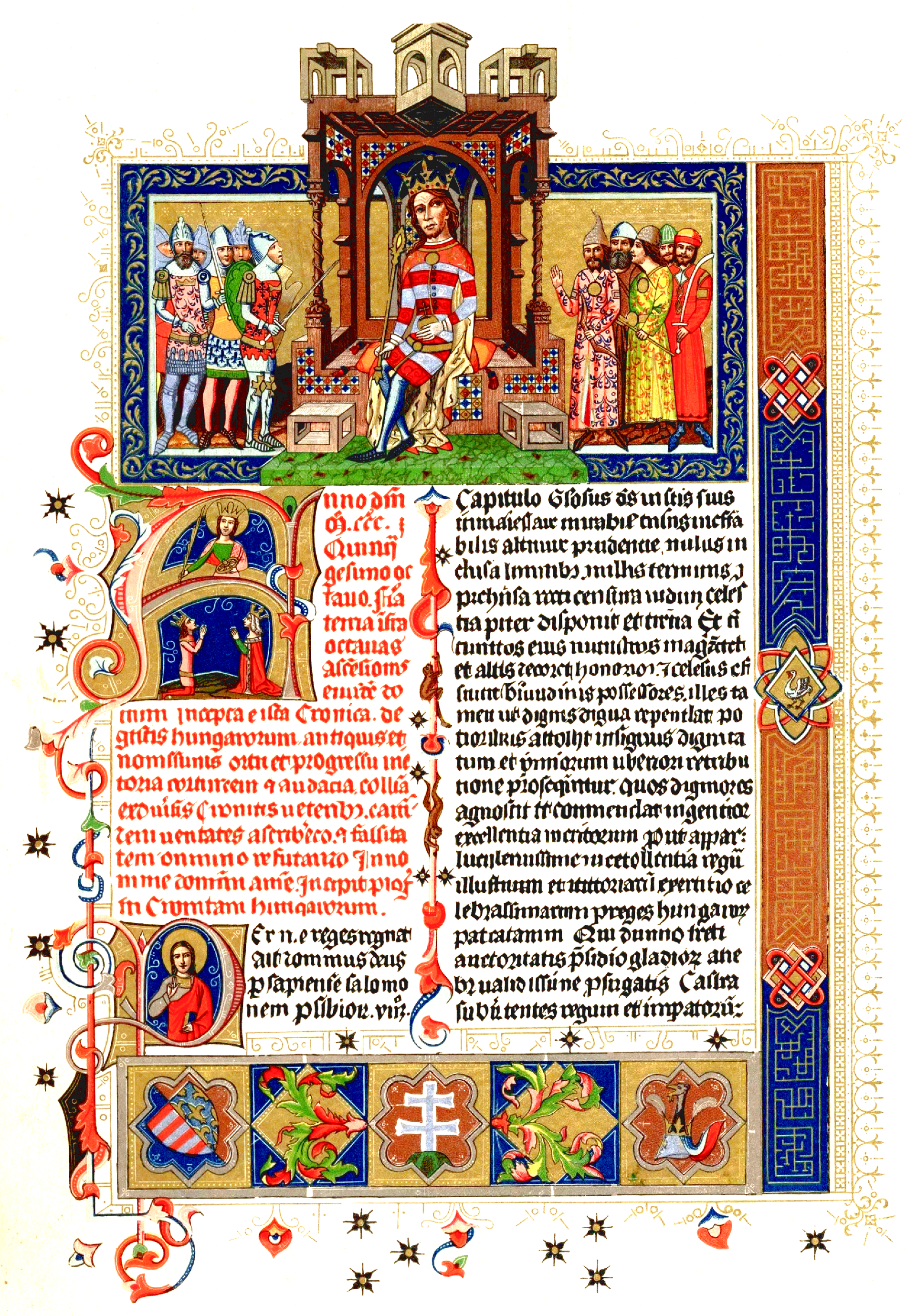 Illuminated Chronicle; Chronicon Pictum; Képes Krónika